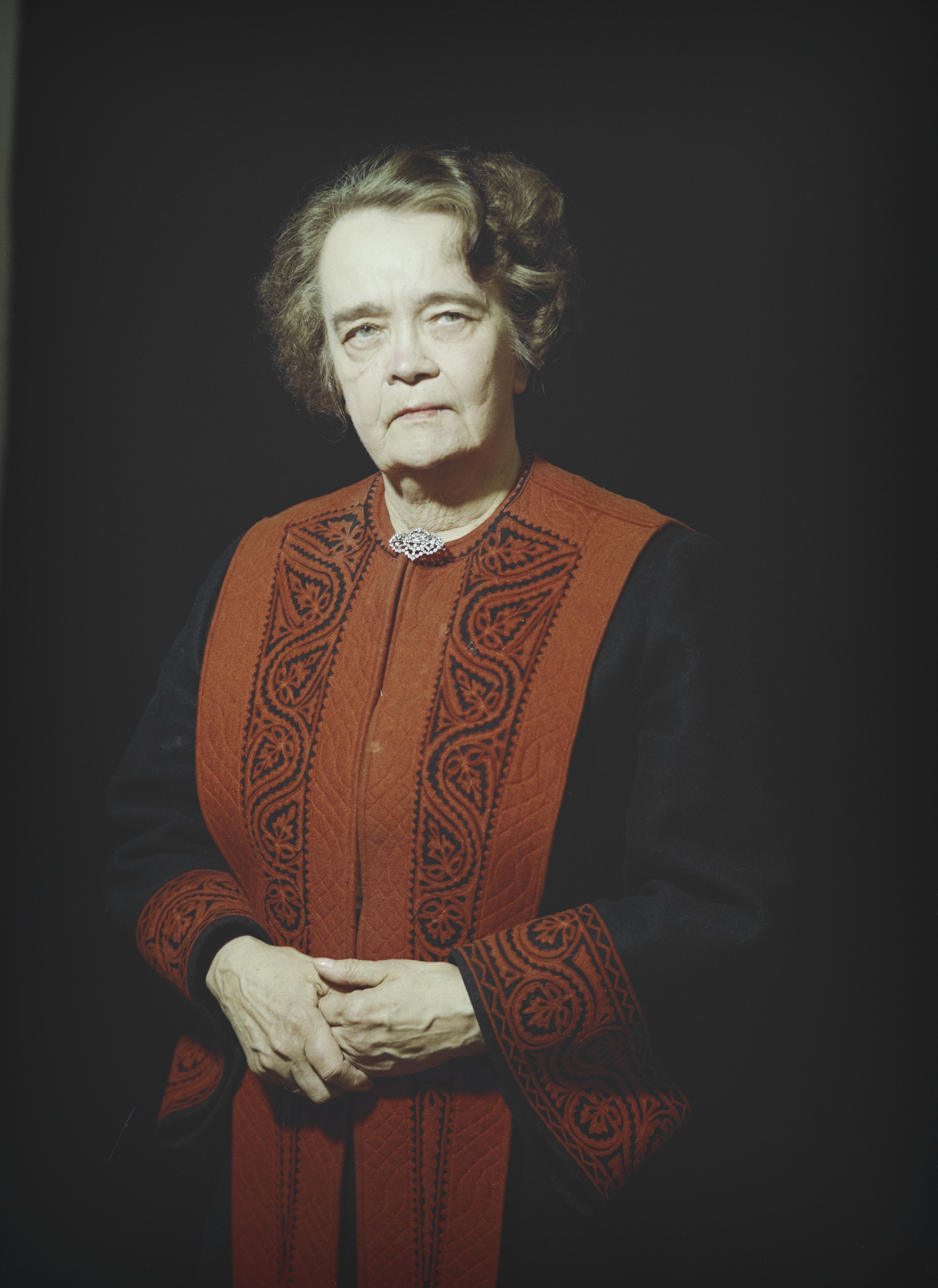 Photograph of the Finnish writer Kersti Bergroth (1886–1975).